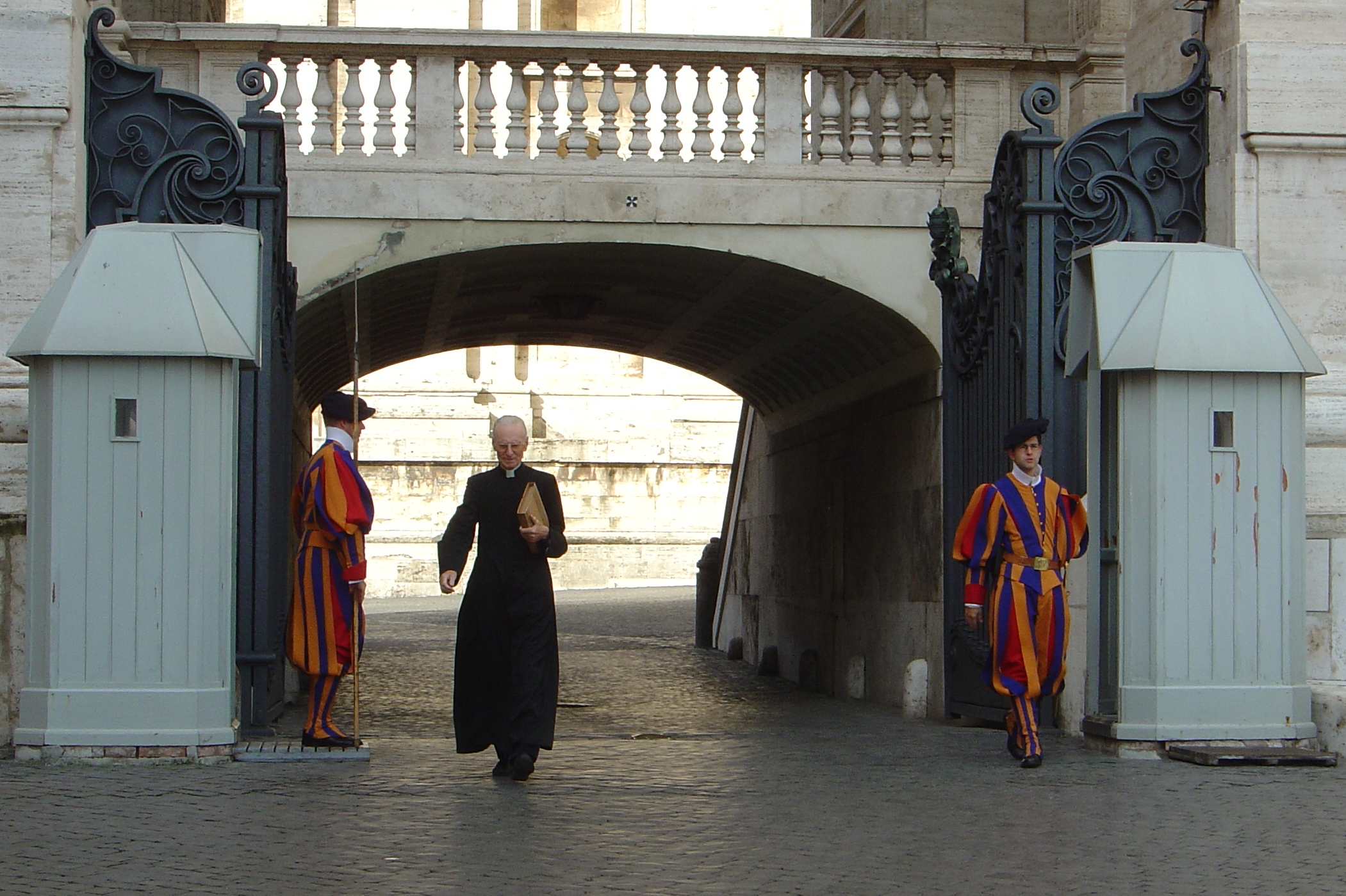 Vatican, prelate and Swiss guards